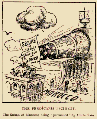 1904 cartoon. United States threatening Morocco for release of citizen held.